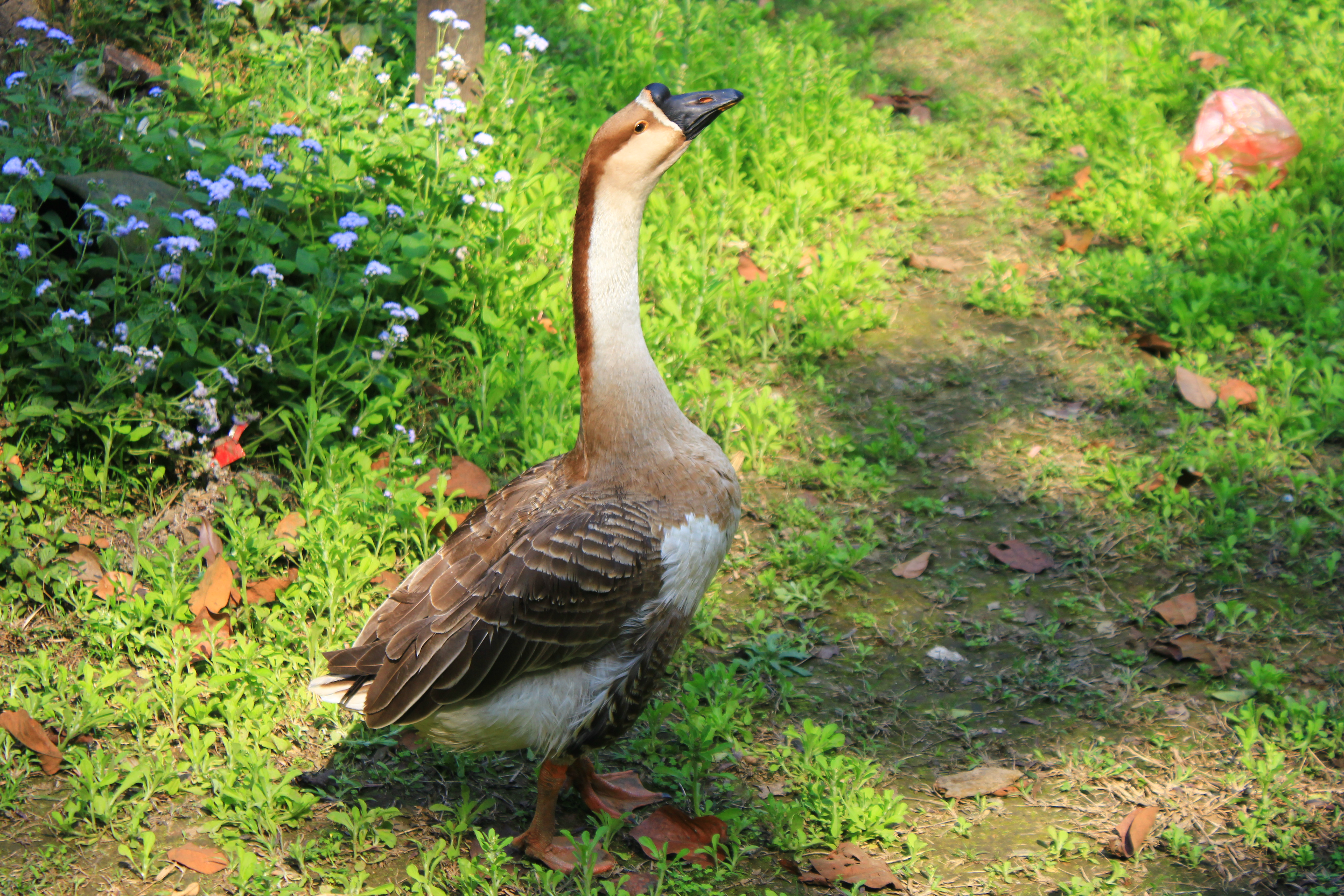 Goose in Myitkyina, Kachin